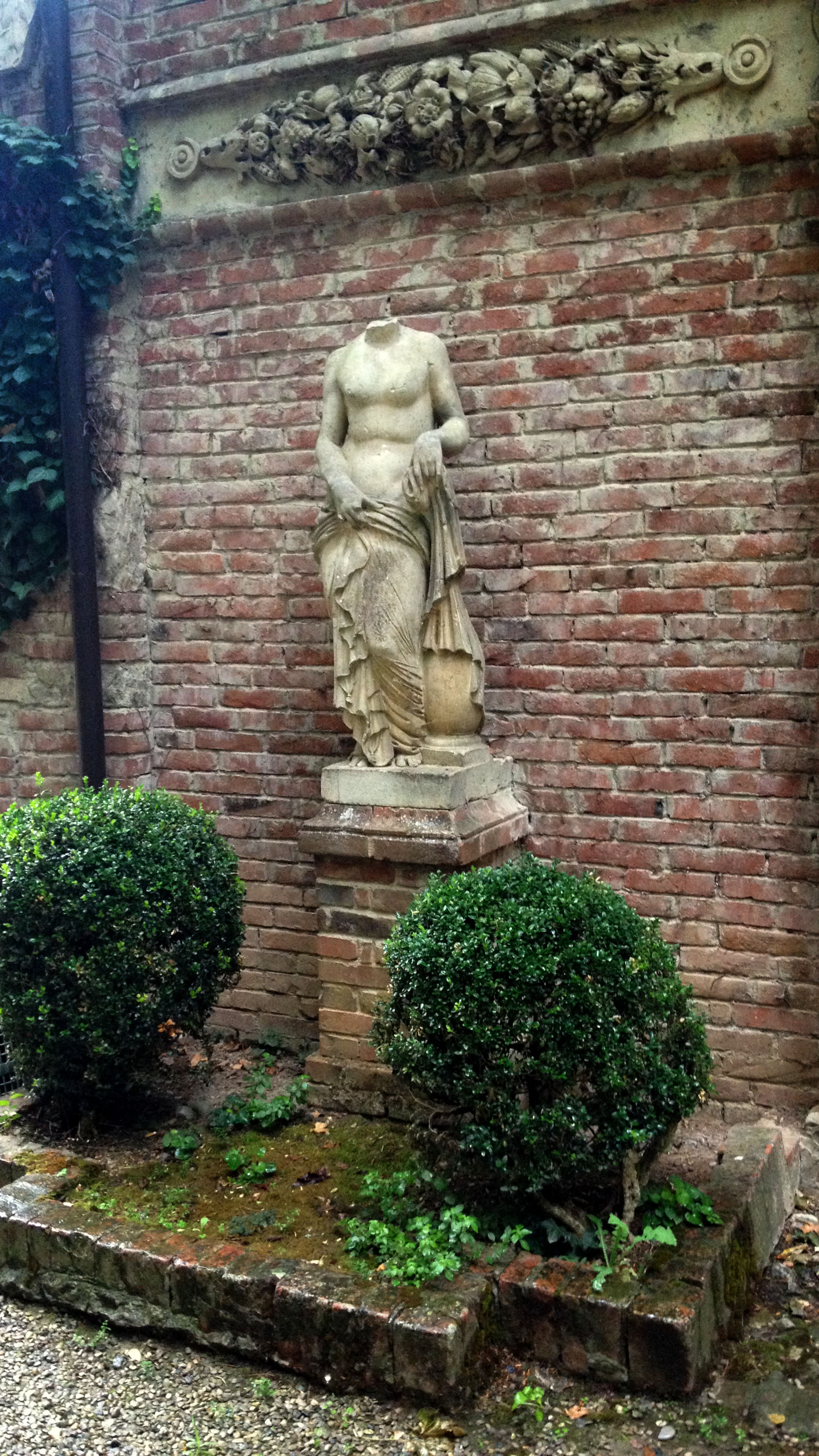 Grazzano Statua